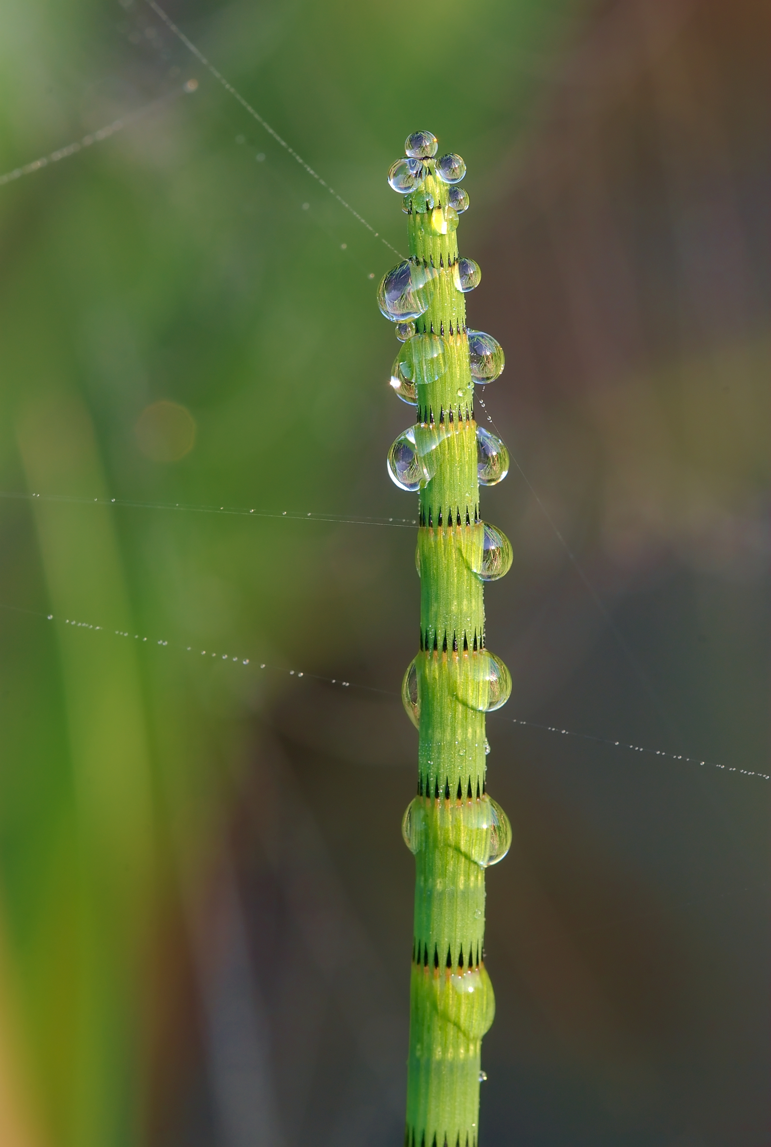 Equisetum fluviatile in Belgium